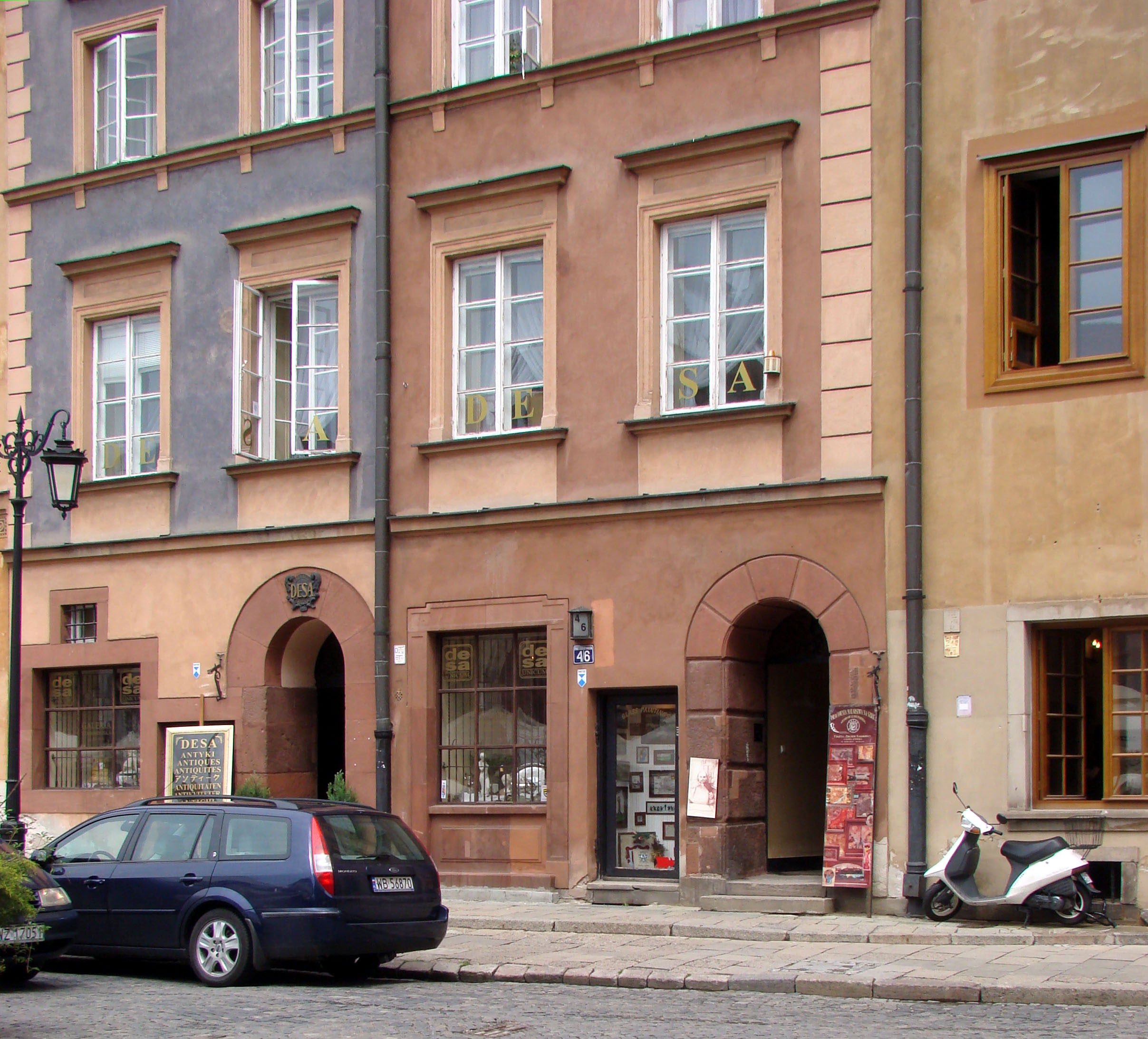 The seat of the former Klub Krzywego Koła